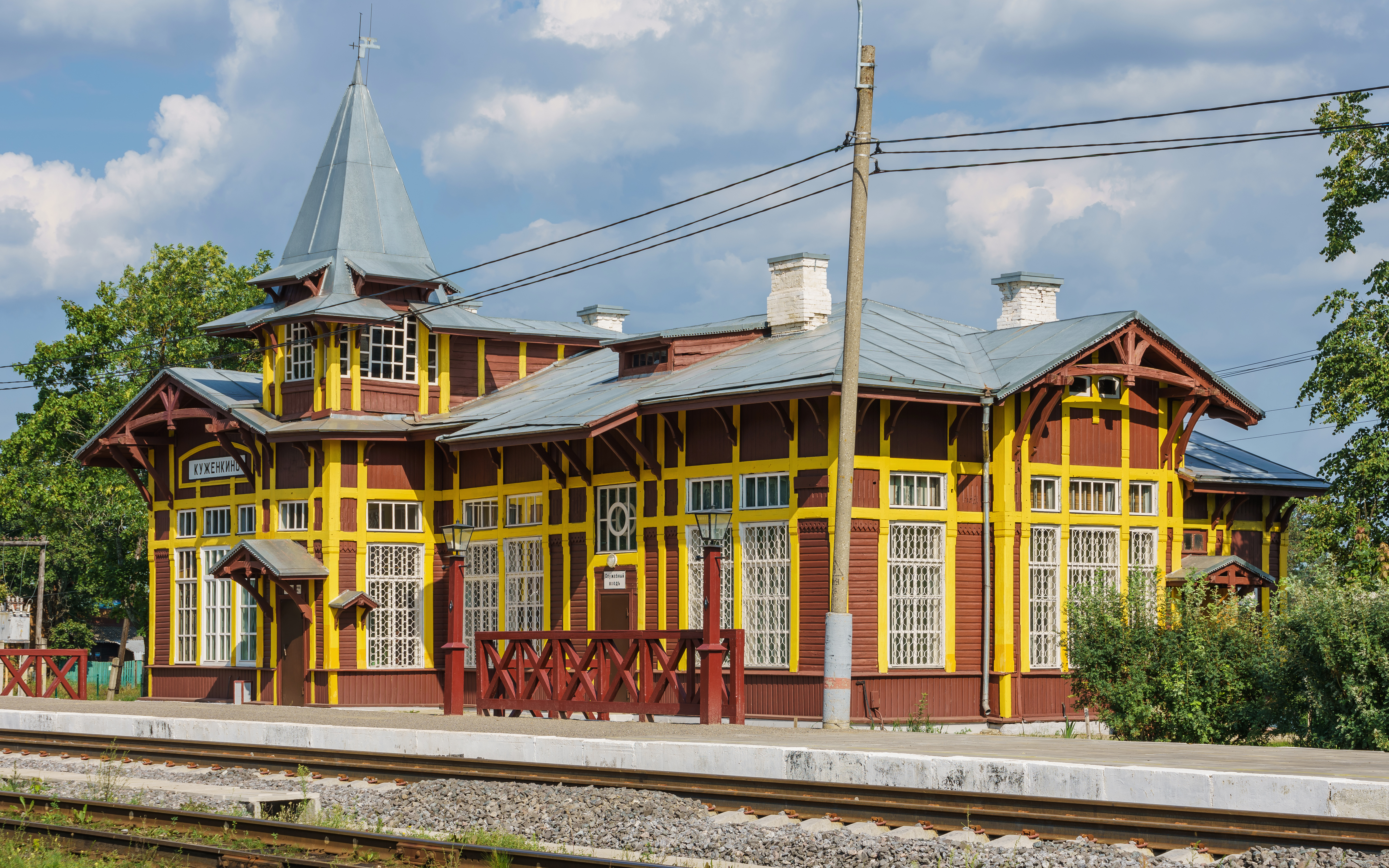 Main building of the railway station in Kuzhenkino, Tver Oblast, Russia.